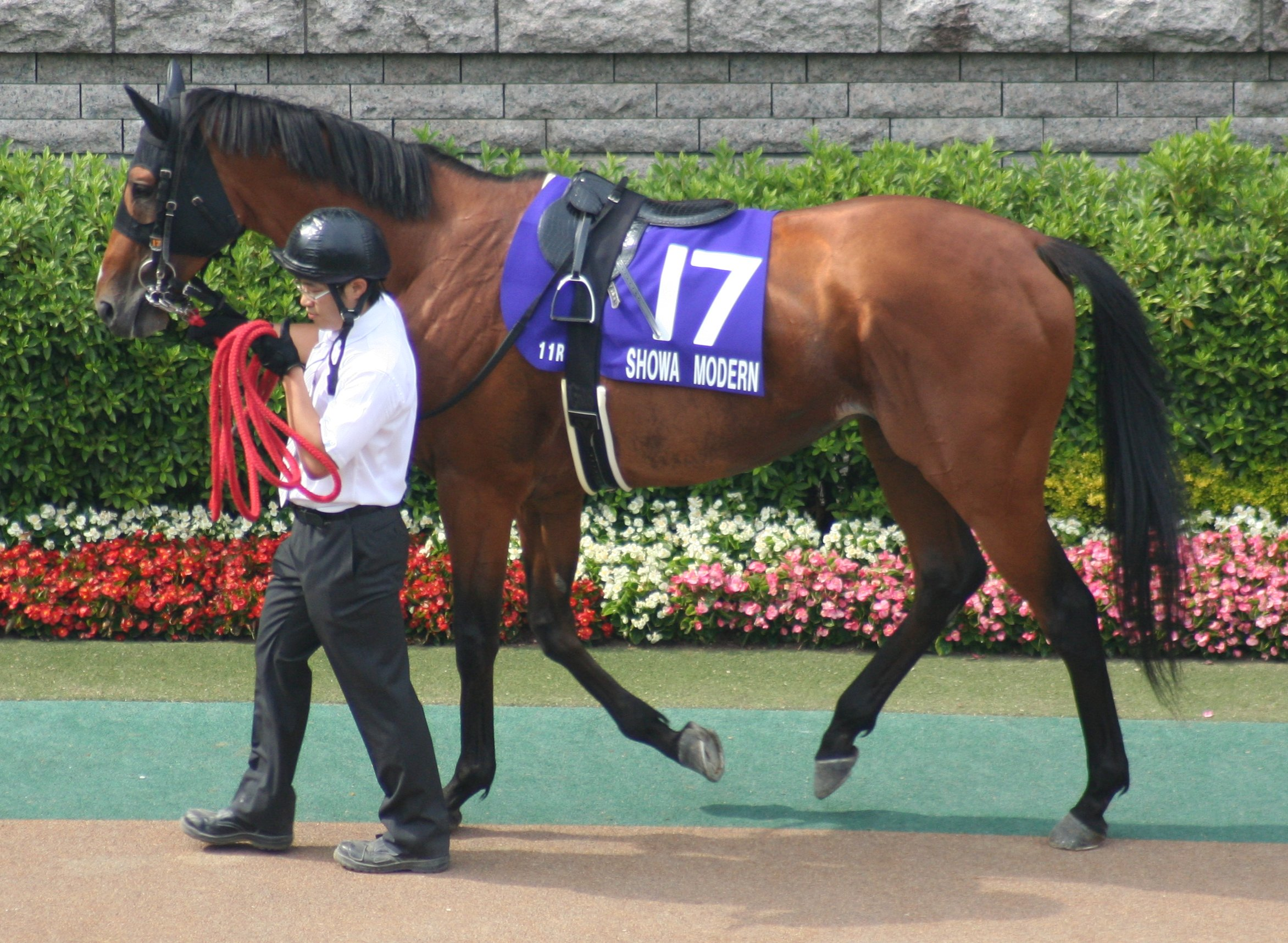 Showa Modern